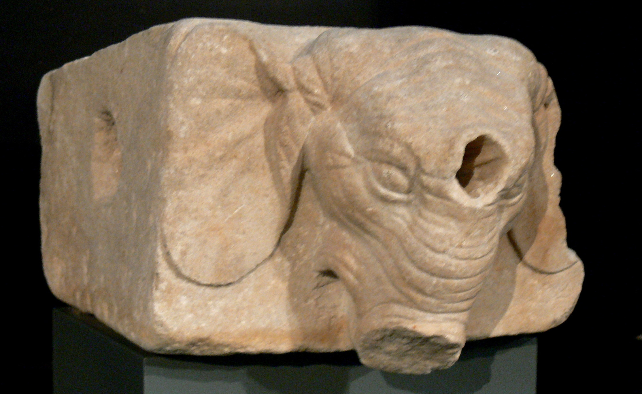 Pergamon Museum - Collection of Classical Antiquities. Pergamon: Part of a fountain with elephant head ( hellenistic ).